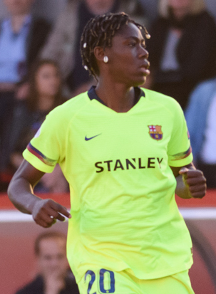 Asisat Oshoala during the Champions League match vs Fc Bayern München